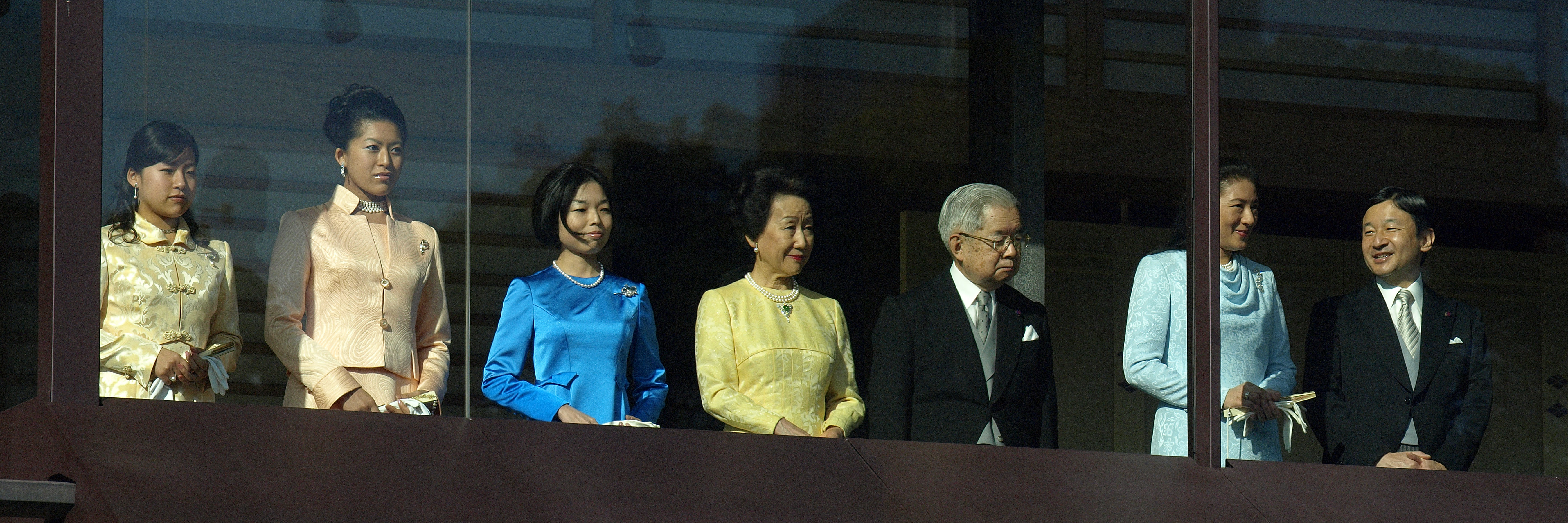 The new year greeting 2011 at the Tokyo Imperial Palace. Princess Ayako of Takamado, Princess Tsuguko of Takamado, Princess Akiko of Mikasa, Princess Hitachi, Prince Hitachi, Crown Princess Masako, Crown Prince Naruhito(from left to right).